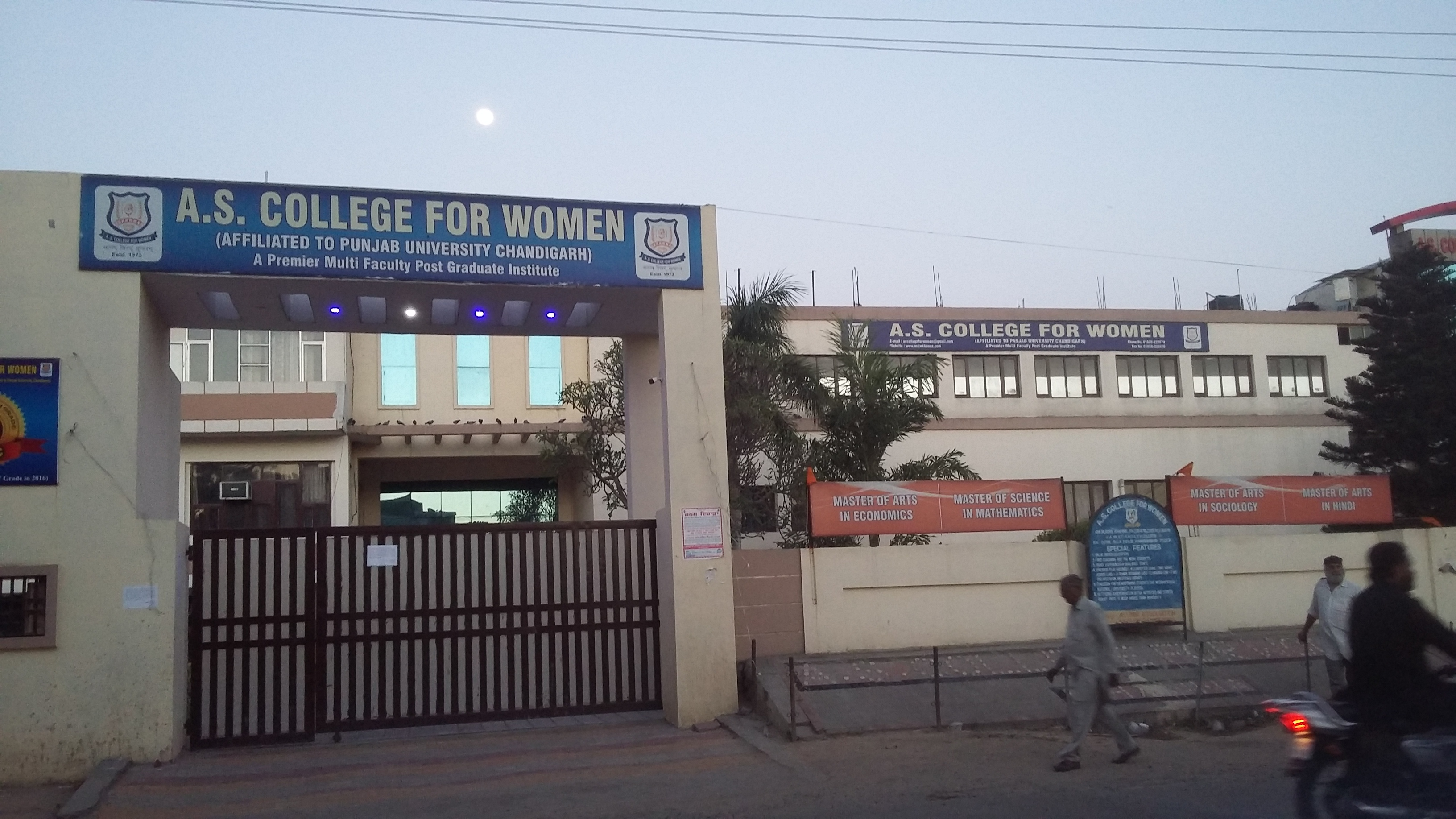 A.S. College for Women, Khanna